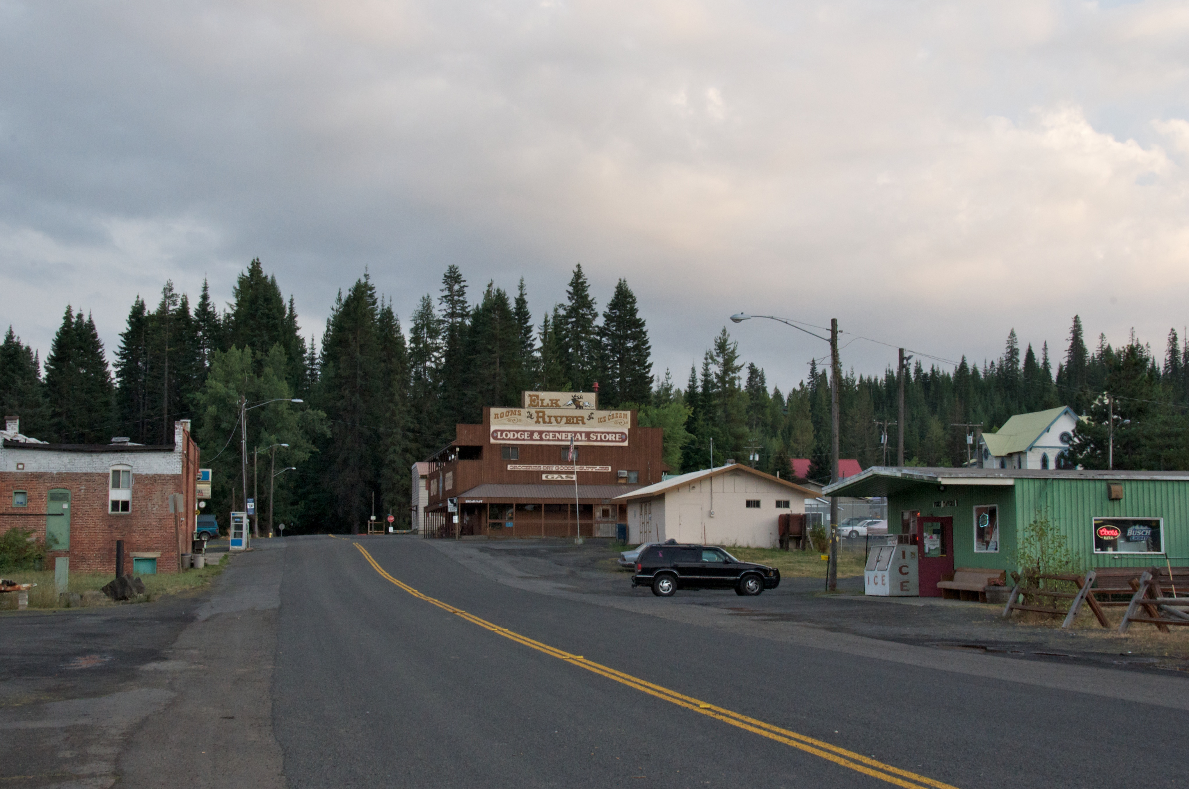 Elk River Streetscape, Elk River Idaho